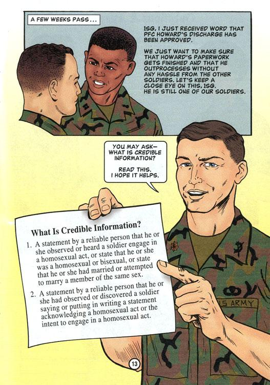 DIGNITY & RESPECT (2001) is a U.S. Army training guide on the homosexual conduct policy. PROBLEMS DEALT WITH: Homosexual conduct, evidence gathering and credible witnesses, admission of guilt, harassment, and additional army resources. This page deals with assessing what is credible information when someone is suspected of homosexuality.